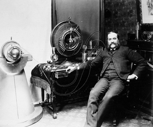 John Ernst Worrell Keely poses with his nonfunctional "Keely Engine".